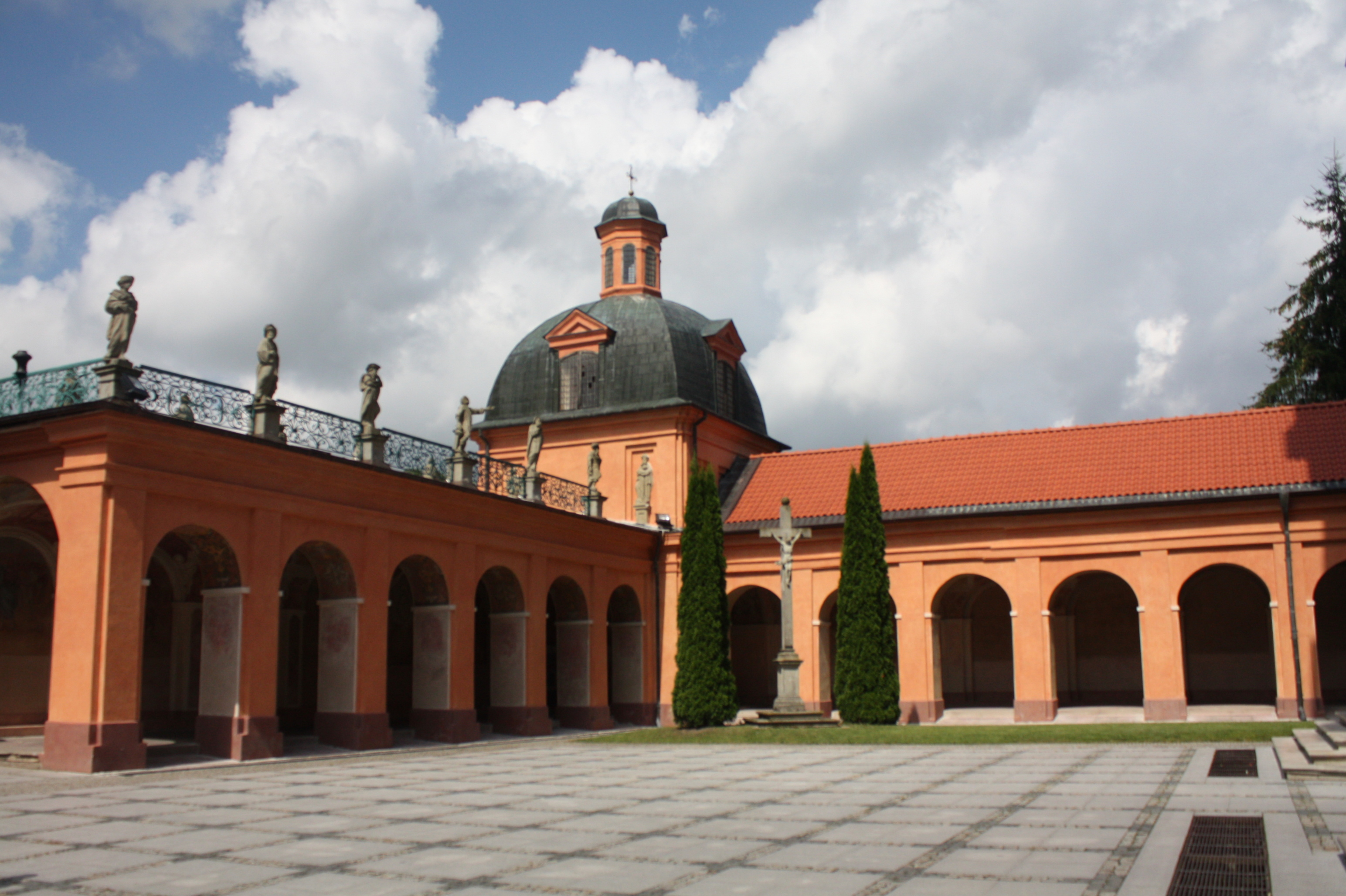 This photo of Warmian-Masurian Voivodeship was taken during Wikiexpedition 2012 set up by Wikimedia Polska Association. You can see all photographs in category Wikiekspedycja 2012. The making of this document was supported by Wikimedia Polska.